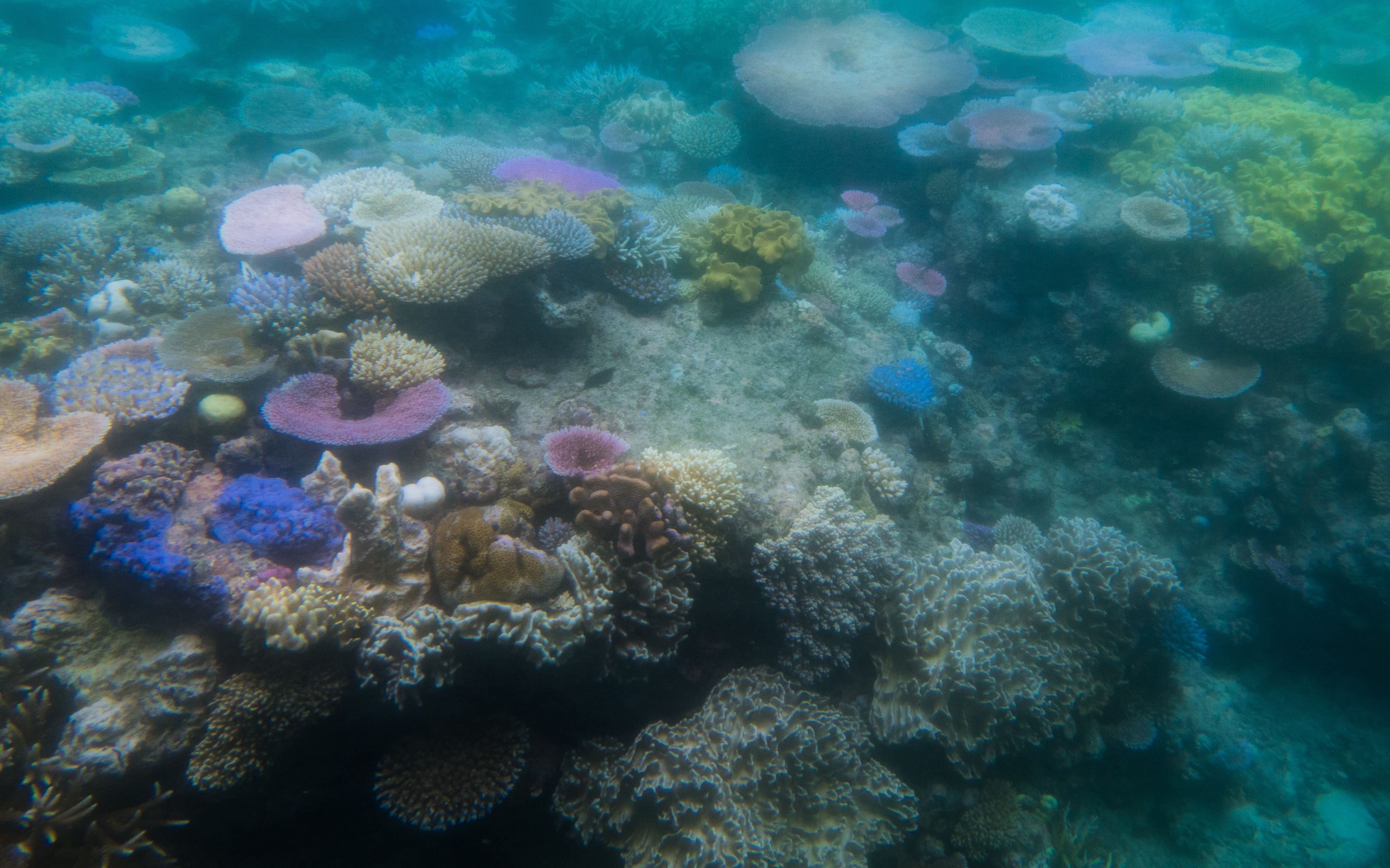 Great Barrier Reef Bleaching